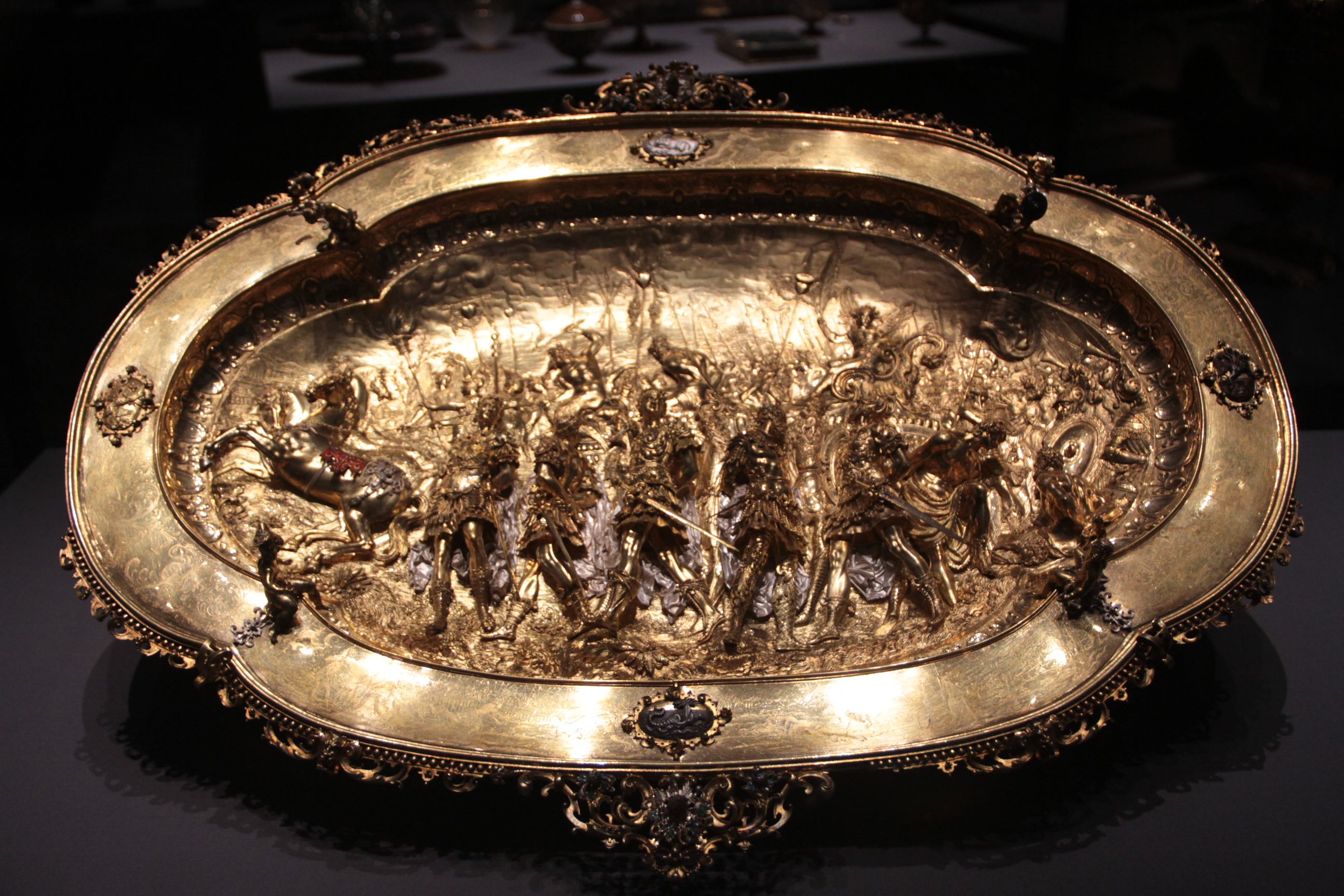 Cupids triumphal procession completely fills the bowl of this quartrefoil basin. In his horse-drawn triumphal chariot, Cupid carries Jupiter as the most distinguished of his twelve prisoners. Ceasar leads the "nine perfect heroes on foot, with the crouching Hercules bringing up the rear of the bound companions. Cupids retinue reaches into the distance as far as the eye can see. Putti seated at the spandrels of the rim personify the four continents, as can be seen from their emblems. Relief medaillons on the rim - one each of gold, silver, bronze and iron - represent the four world empires (Babylon-Assyria, Persia, the Empire of Alexander the Great and the Roman Empire) in the shape of visionary symbolic animals. Delicately chiselled engravings of four mythological scenes from Ovids Metamorphoses (Apollo and Daphnis; Pluto and Proserpine; Hippomenes and Atalanta; uncertain scene) appear on the smooth rim of the basin. The main theme, the triumph of Cupid, refers to the first of the six trionfi of Petrarch, while the last five are represented in relief on the ewer. Jamnitzer was not only inspired by the text but also by illustrations of the trionfi but without exactly copying a single one. Whether the enlargement of the theme should be ascribed to an ideographer from the Prague circle around Emperor Rudolph II who commissioned the set, or whether the artist himself was responsible for it, is a moot point.